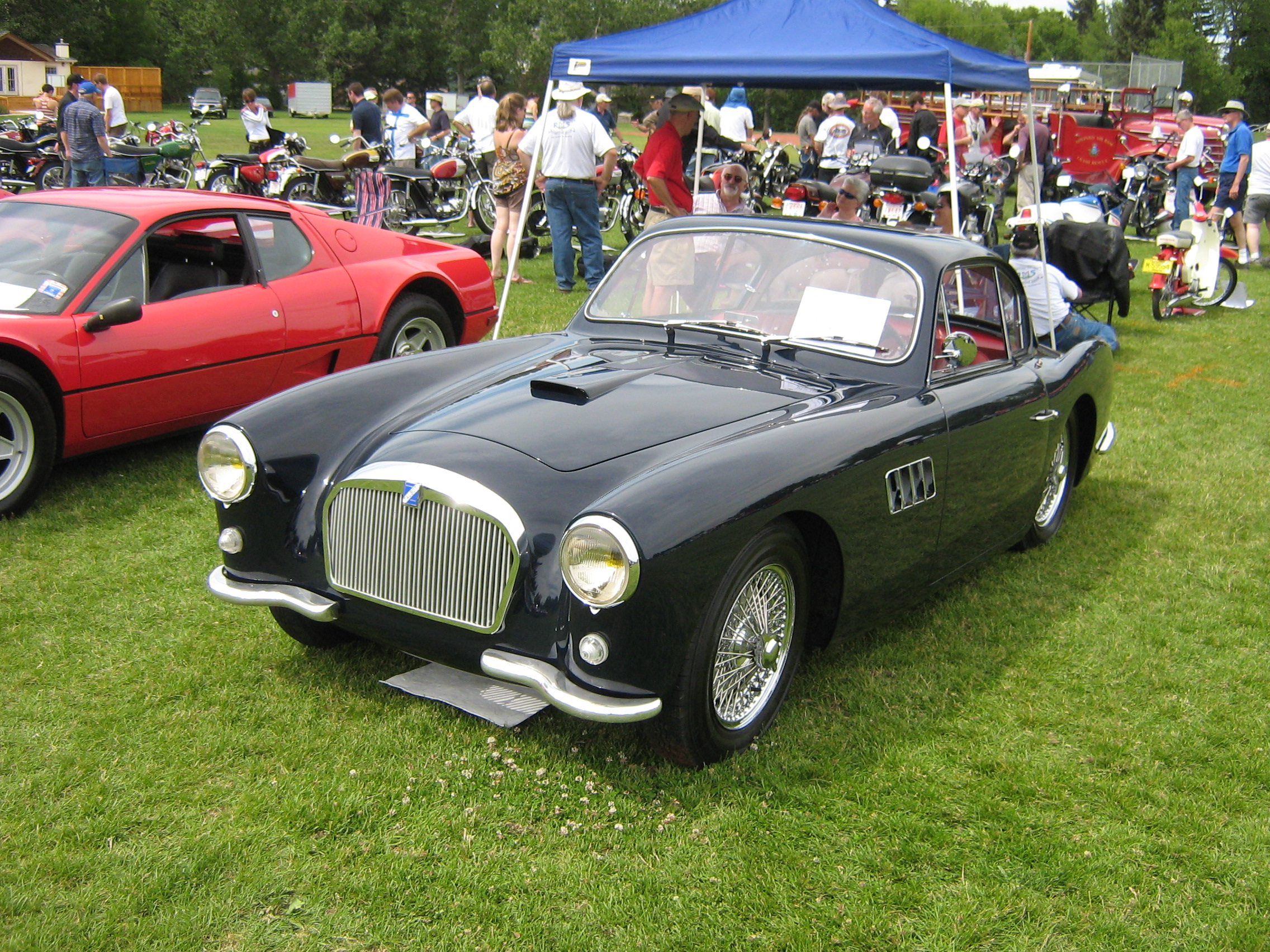 1957 Talbot-Lago America. 1 of 60 built.